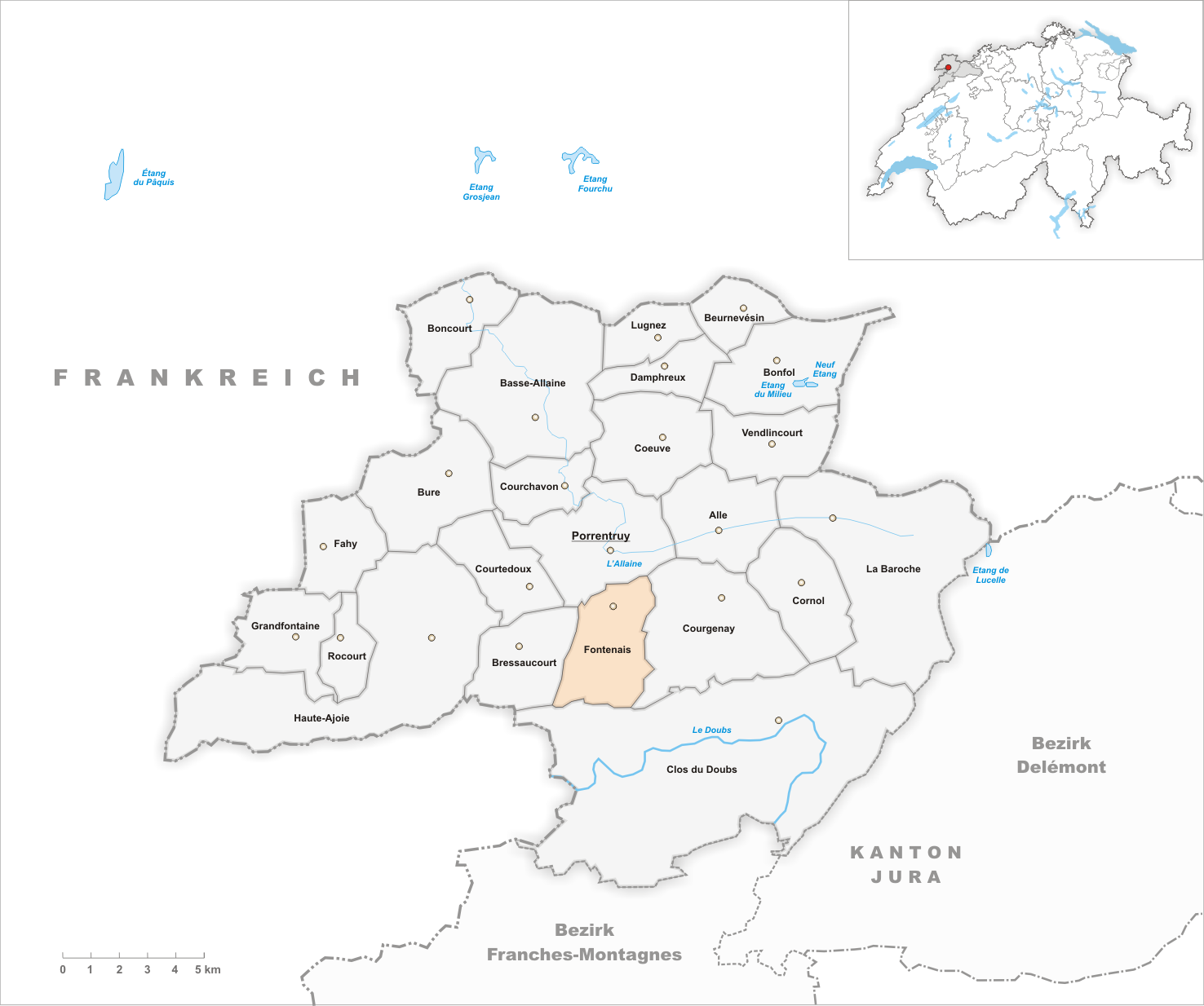 Municipality Fontenais